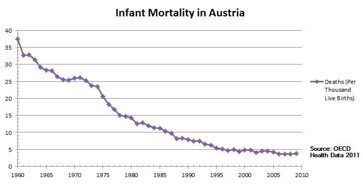 This image depicts the trend for infant mortality between 1960 to 2009 in Austria. An 'OECD Health Data 2011' report is used for the information, which is available here. Note that the y-axis information is per 1000 live births.